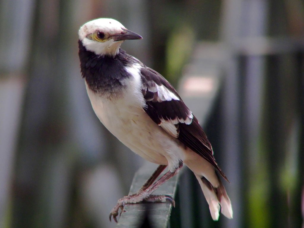 Black-collared Starling - Gracupica nigricollis Yau Ma Tei, Kowloon